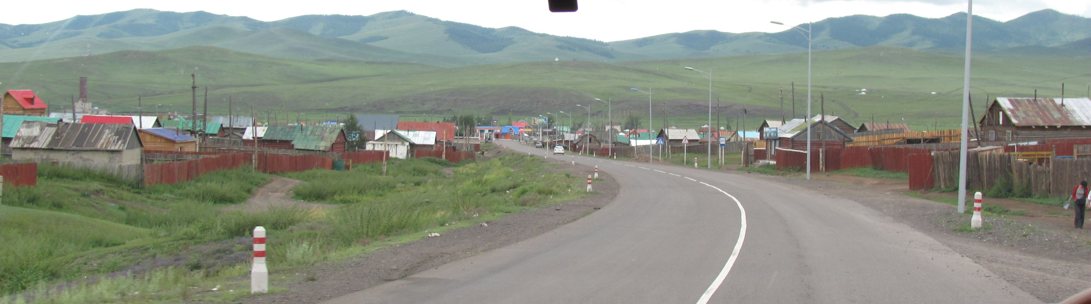 Main street, Bulgan Town, Bulgan Aimag, Mongolia.